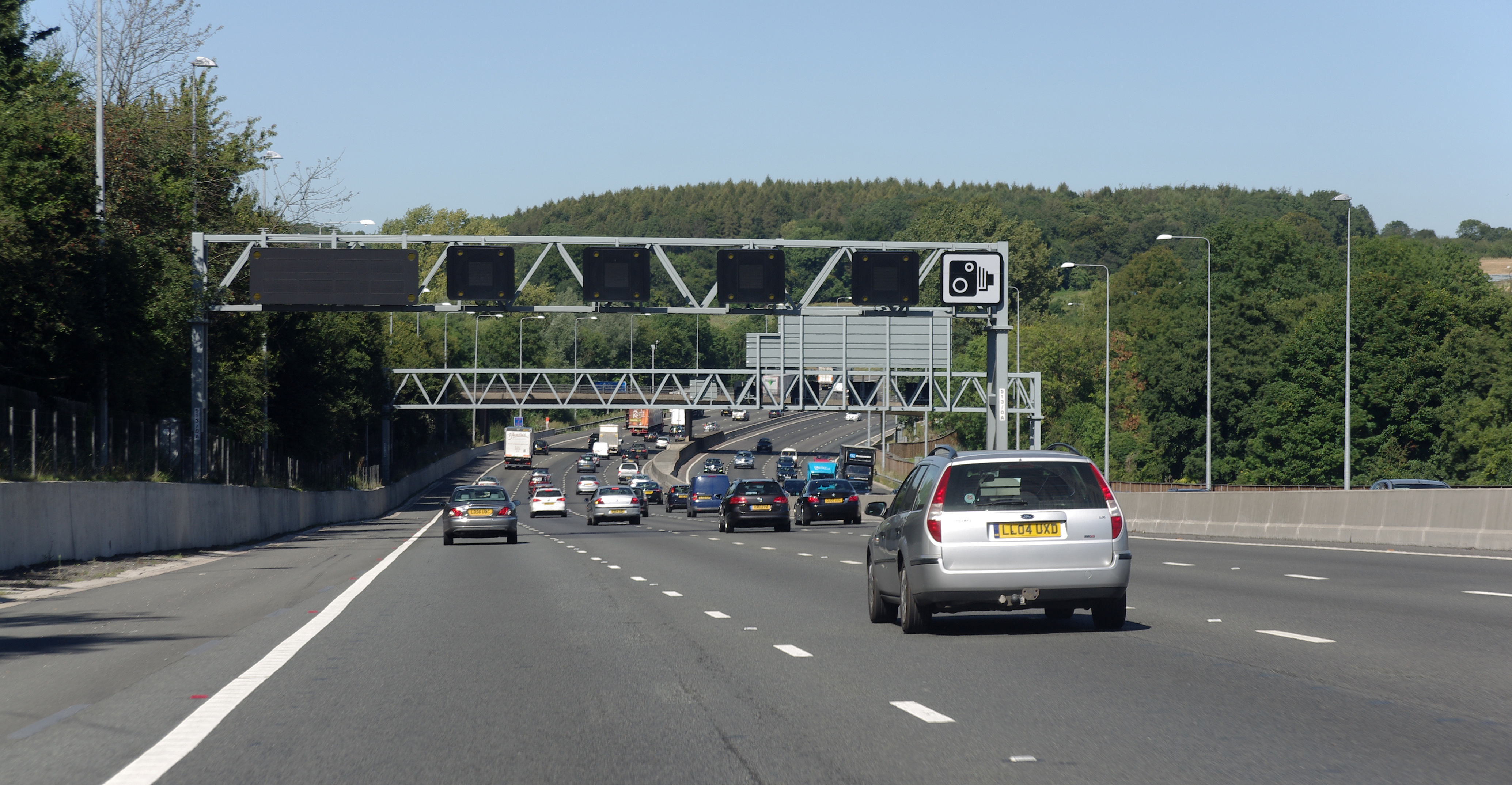 The M25 London Orbital motorway, clockwise, just north of Junction 18 (Rickmansworth / Chorleywood).